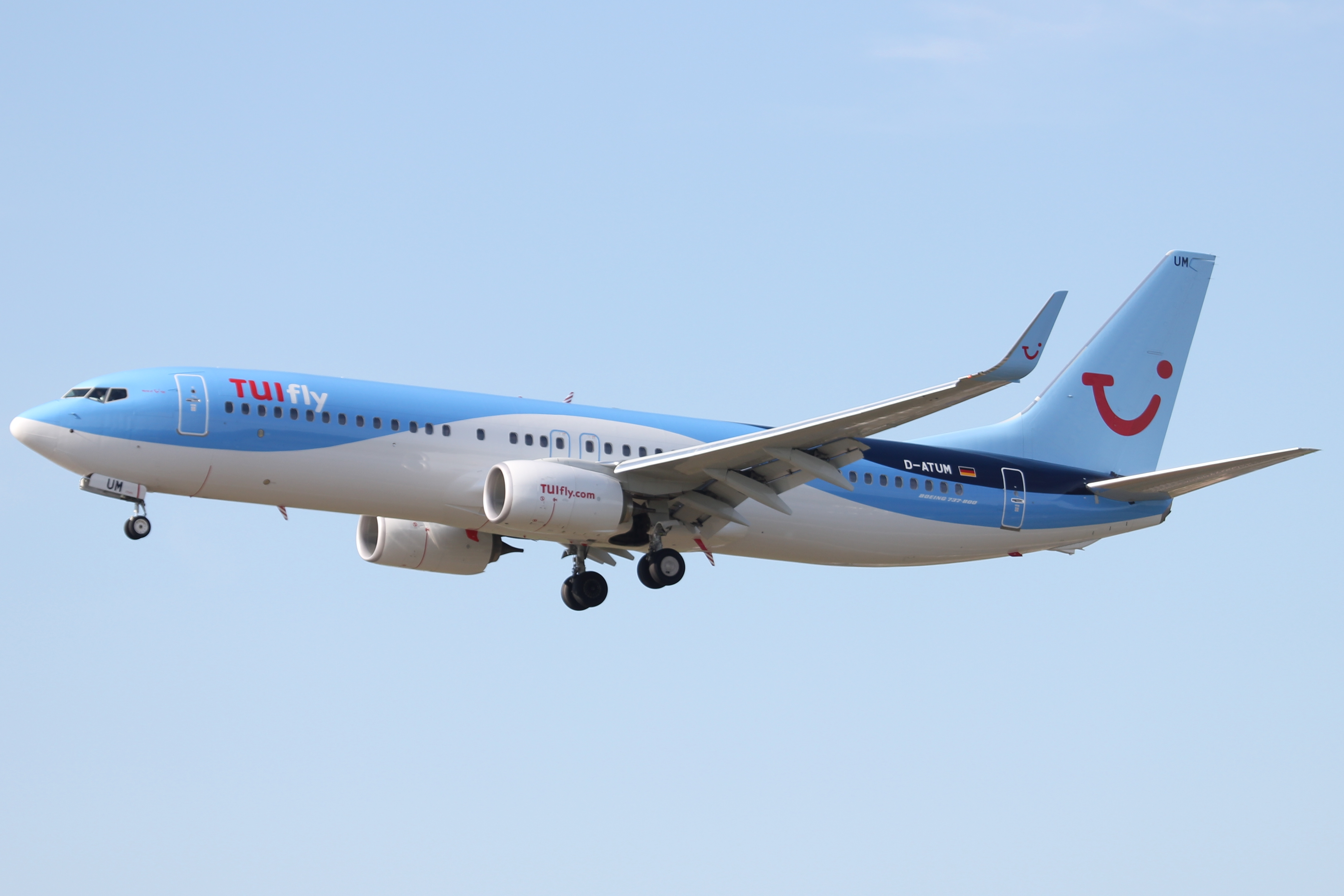 A TUIfly B738 arrives at Frankfurt Intl. This plane is the first one to wear the new livery.